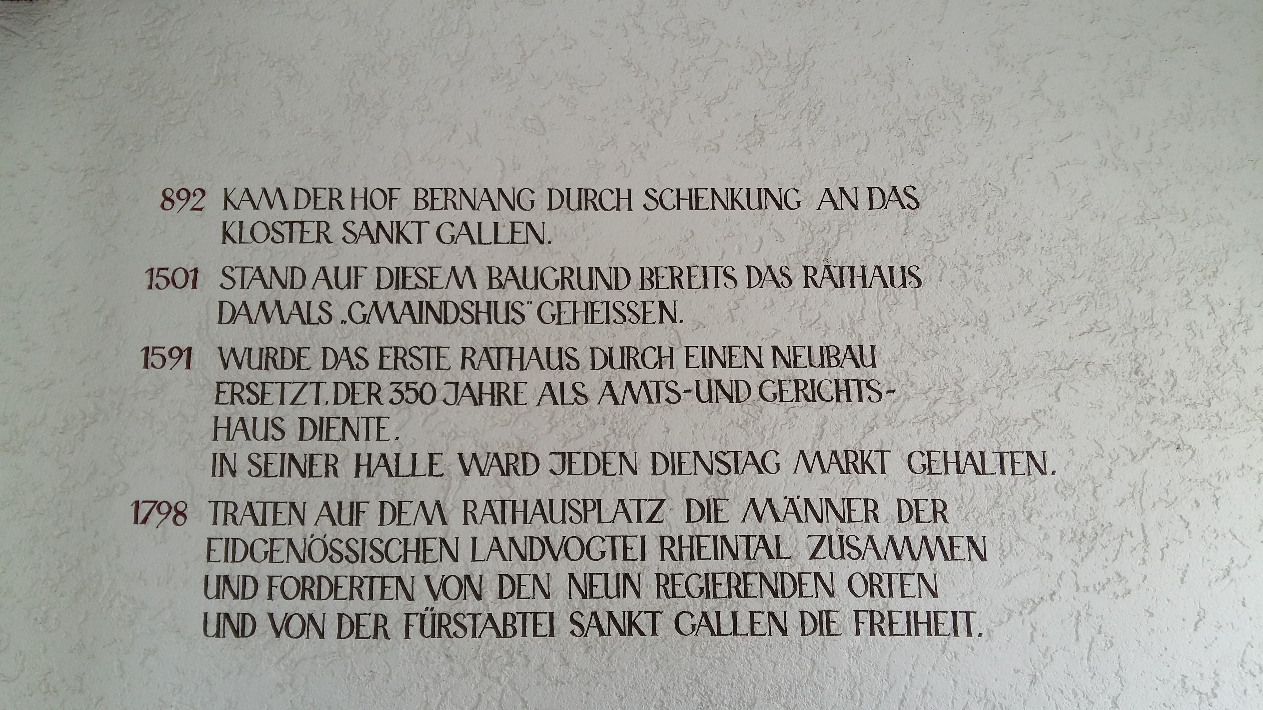 Mural